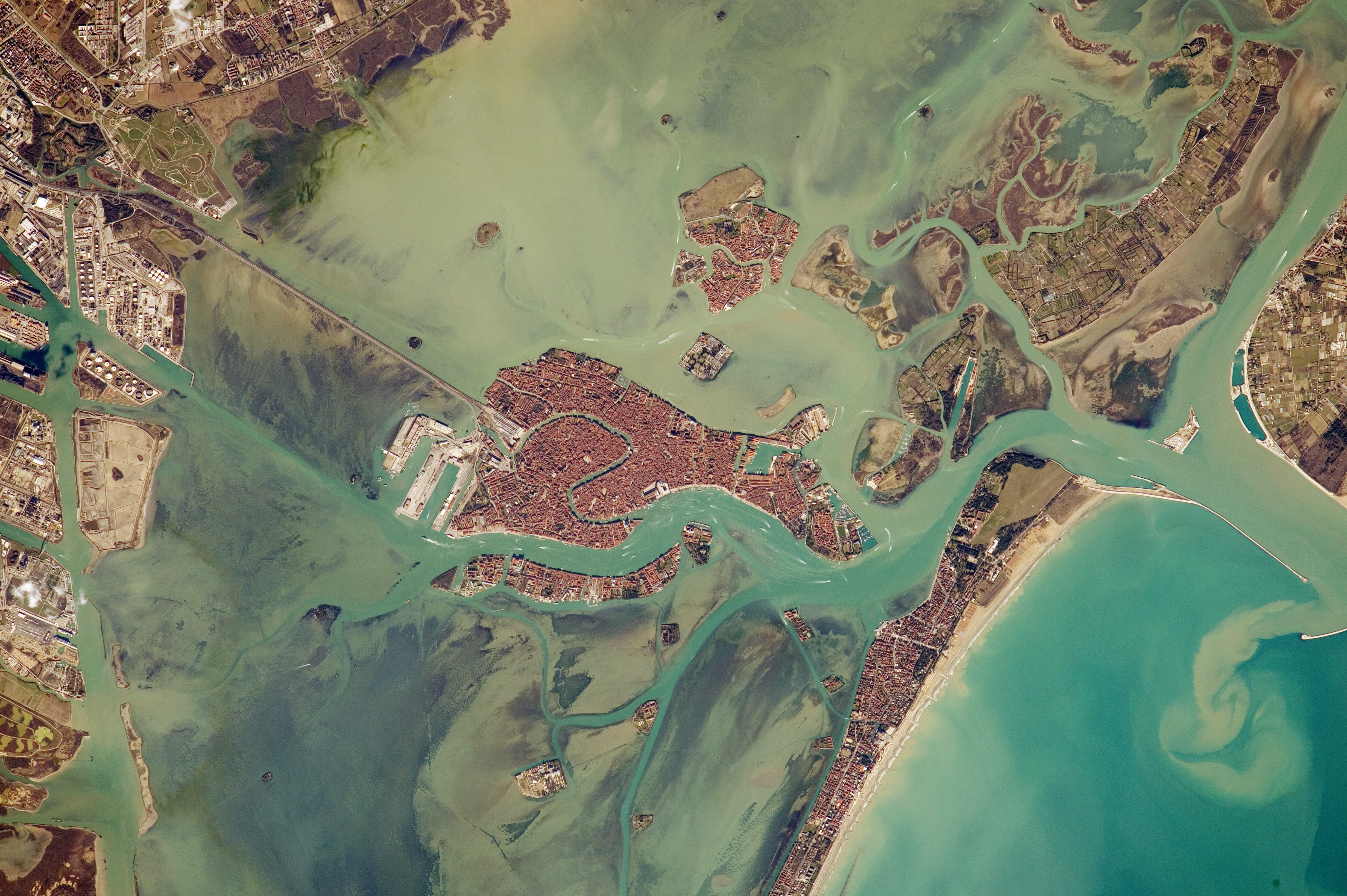 NASA astronaut Tim Kopra tweeted this image with the comment: "#VeniceItaly and Murano. Enjoyed both and Rome with my family in 2014 -- great people, #food #art and #history."